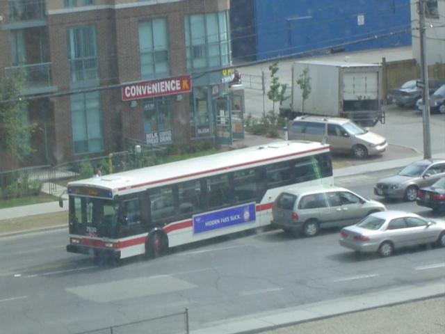 TTC Orion VII LF at Finch Station Facts Builder: Orion Bus Industries, Mississauga, Ontario Model: Orion VII Notes: Updated from Orion VI and competes against New Flyer Industries D40LF. See also Orion Bus Industries